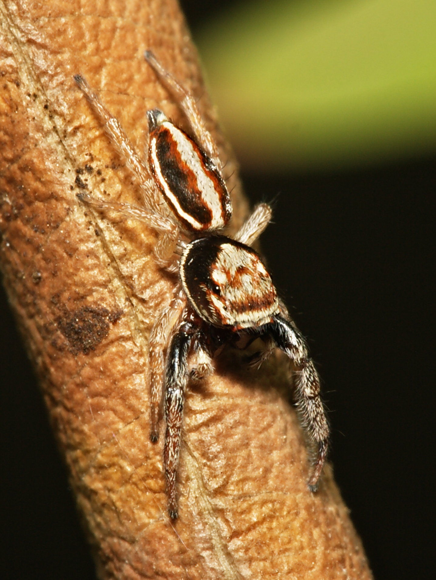 male Icius subinermis from a tree on the shore of Rio Tajo, Toledo, Spain. The spider is sitting on a rolled up leaf, which contains a silken retreat, although this could be from a different spider species.